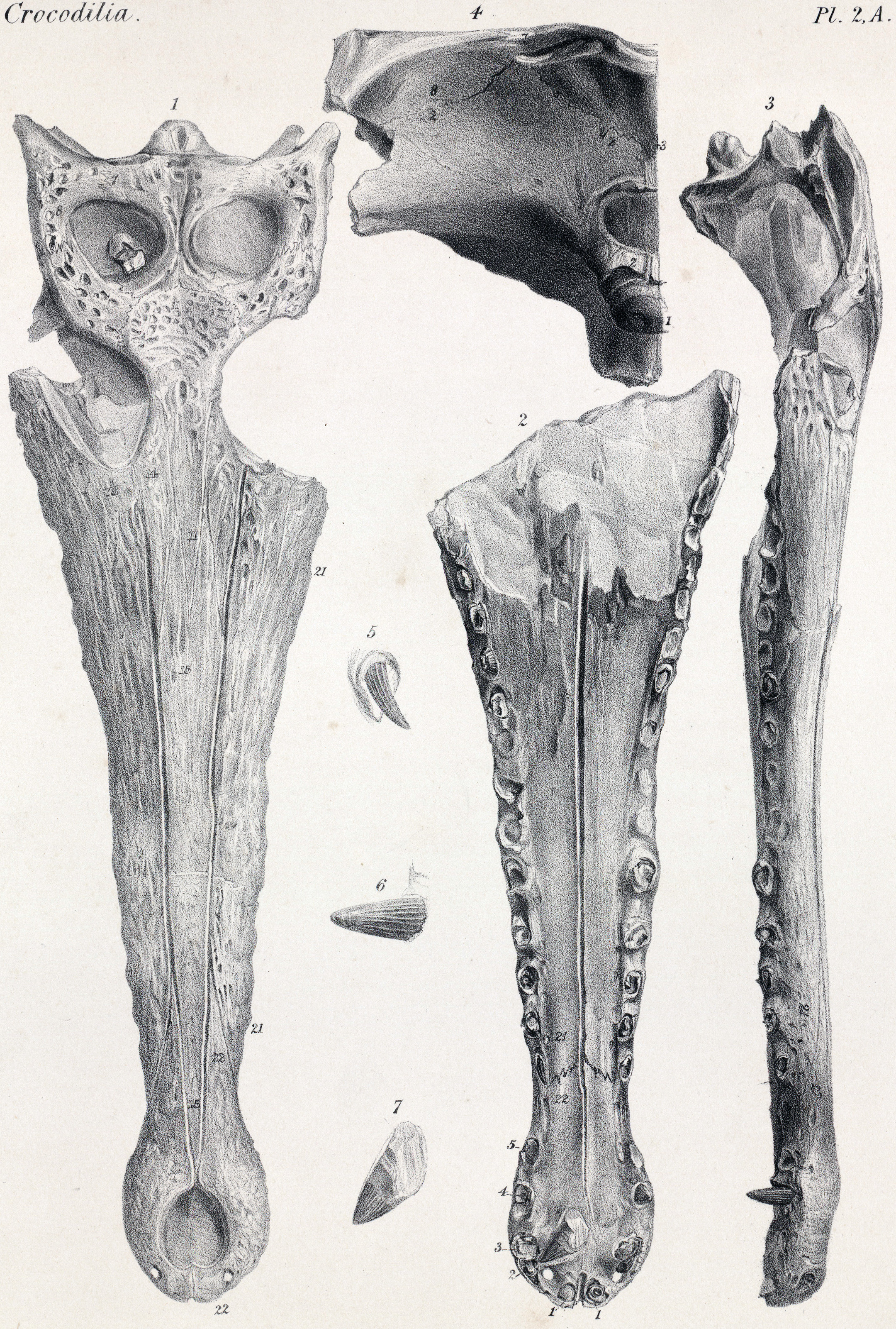 Crocodilus champsoïdes, half the nat. size. Fig. 1. Upper view of the skull. Fig. 2. Under view of the fore part of ditto. Fig. 3. Side view of ditto. Fig. 4. The left half of the back part of the skull of ditto, nat. size. Fig. 5. The point of an anterior young tooth coming into place, nat. size. Fig. 6. Half of the crown of one of the large conical teeth, nat. size. Fig. 7. One of the shorter and more obtuse posterior teeth, nat. size.